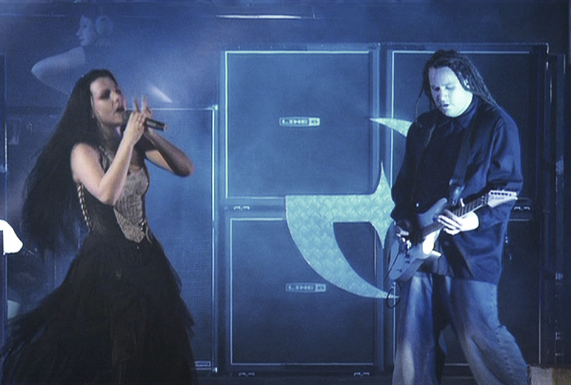 Evanescence performing at Le Zenith, Paris.